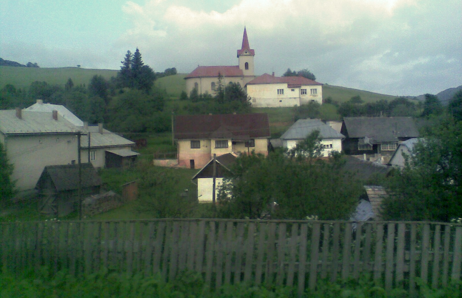 village Obručné (Slovakia)